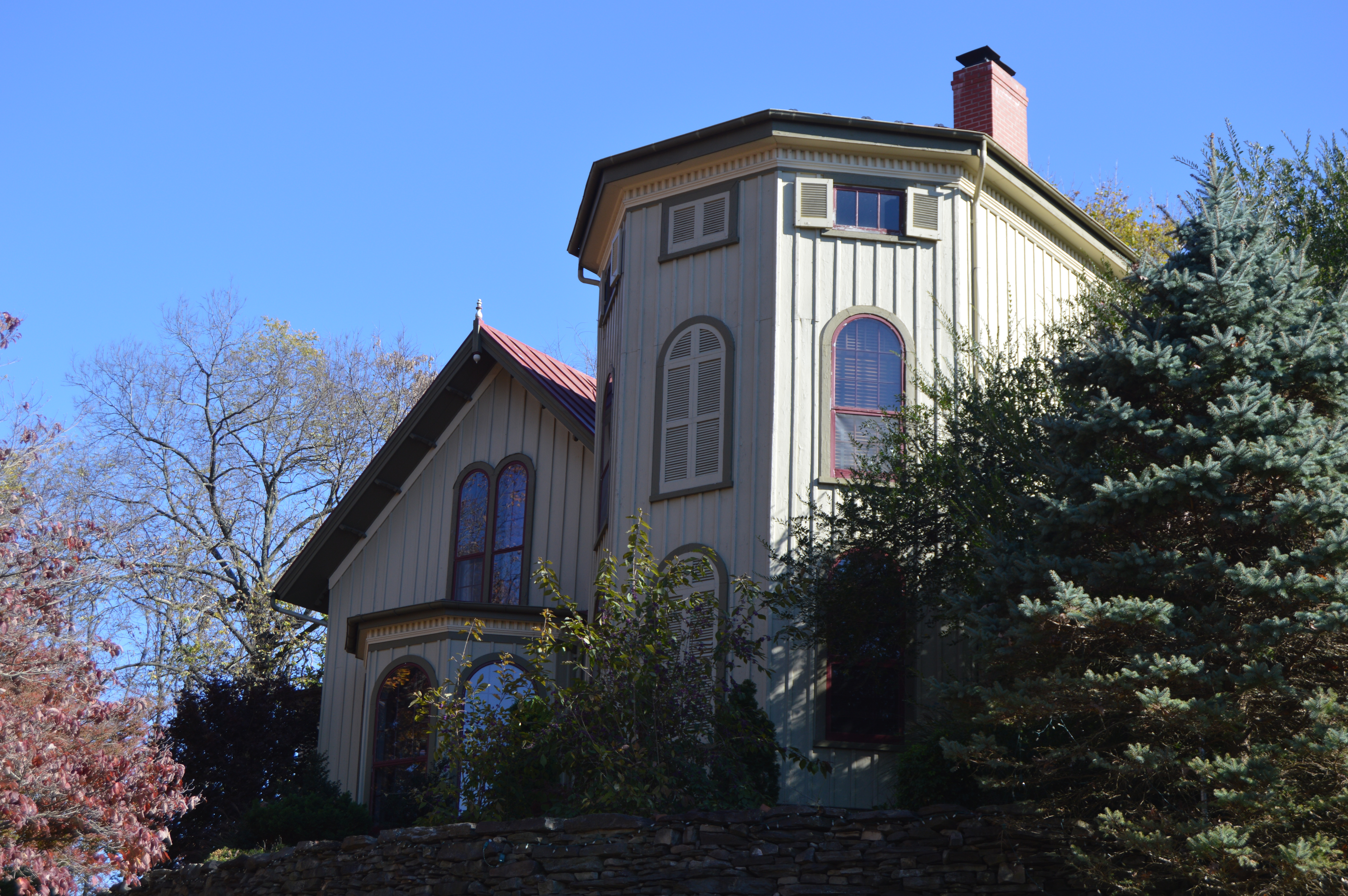 Front of the Sears House, located in Woodrow Wilson Park in Staunton, Virginia, United States. Built in 1866 and the home of Barnas Sears for thirteen years, it is listed on the National Register of Historic Places.